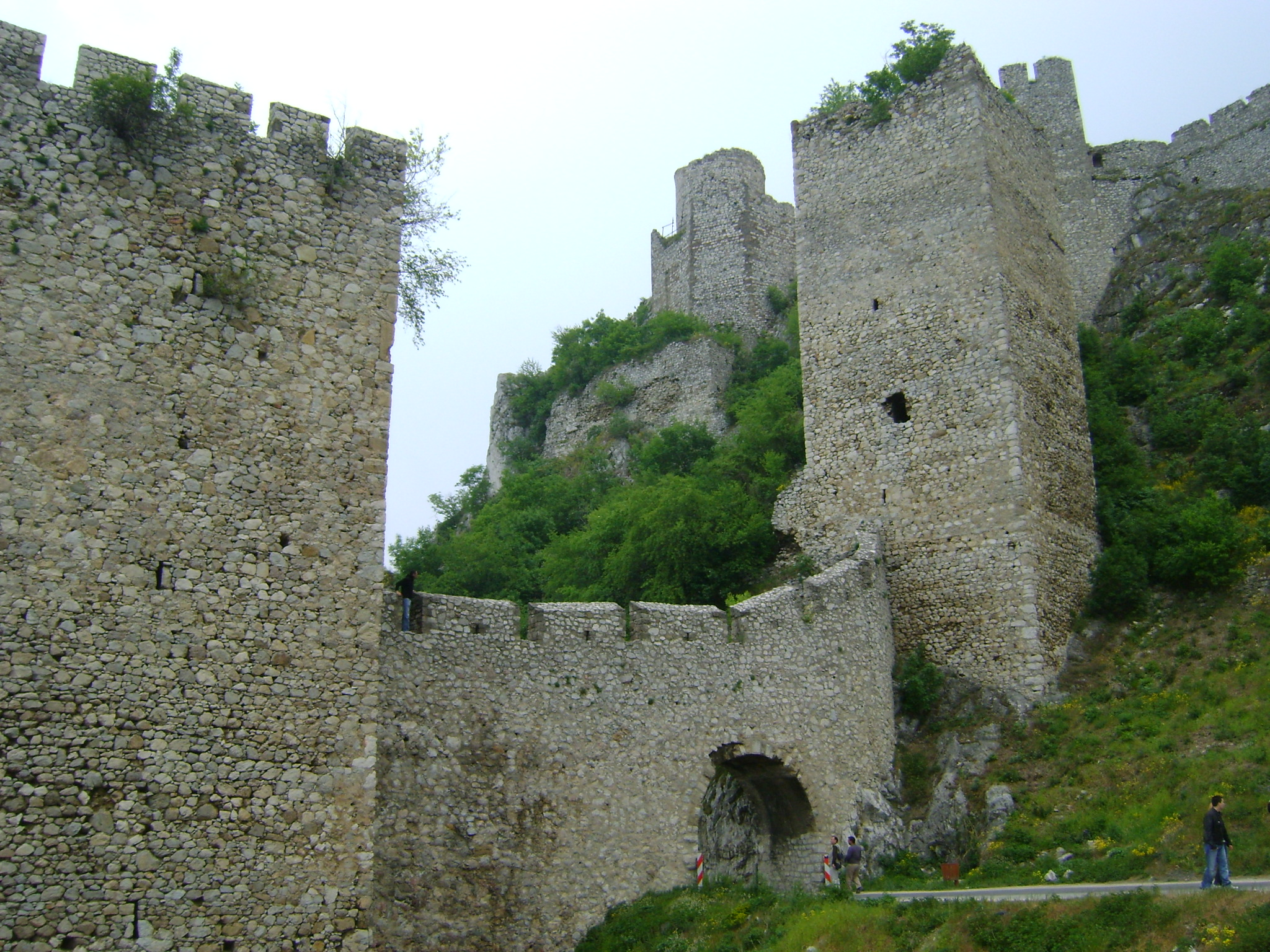 Golubac fort 14th century